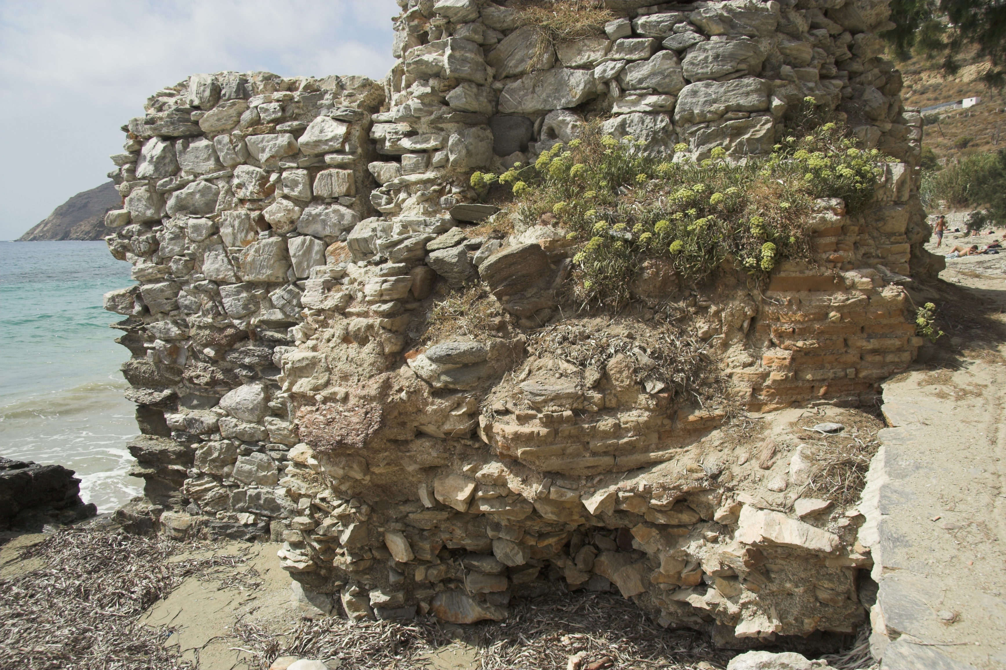 Smaller debris of antiquity amid great beach on the Gulf of Aigiali. It was probably something maritime or fishing.